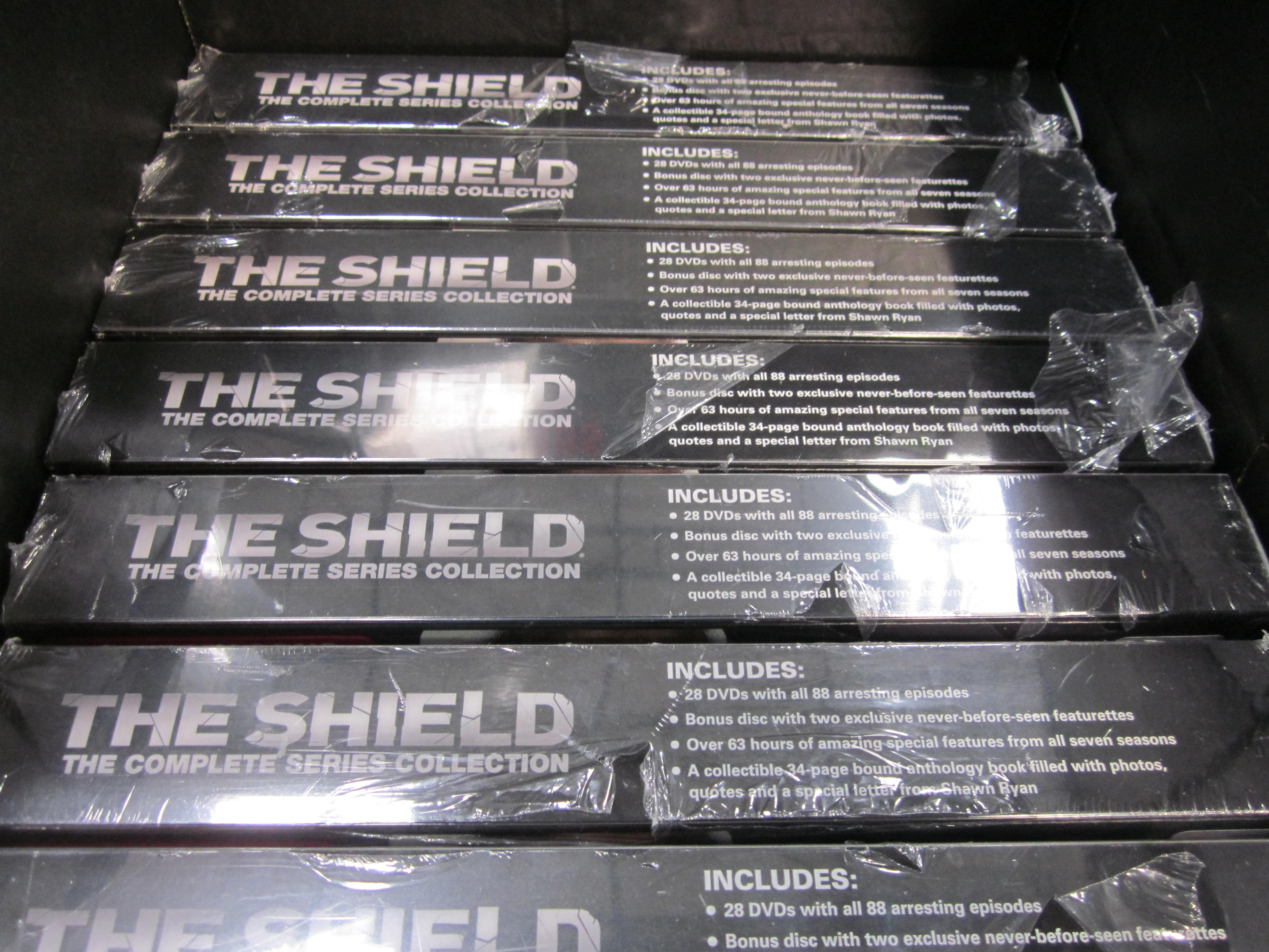 The Shield Complete Series DVD box set at Costco in South San Francisco, California on El Camino Real.